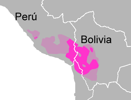 Aymaran languages: Fuchsia: Current extension Purple: Probable ancient extension, according to toponymy. Source: W. Adelaar & P. Muysken: The languages of the Andes, Cambridge University Press, 2004, p. 260